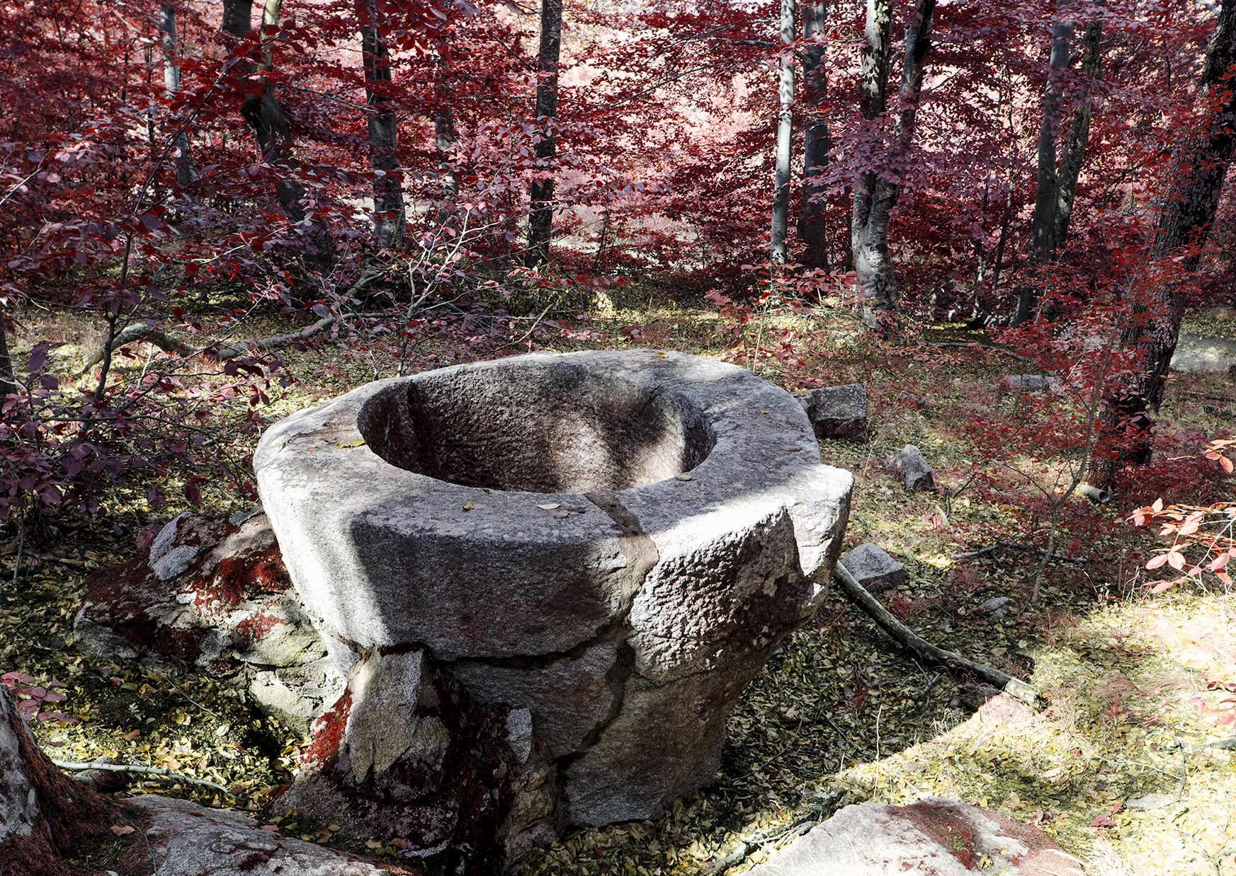 The megalithic Cup Rozovetz BG